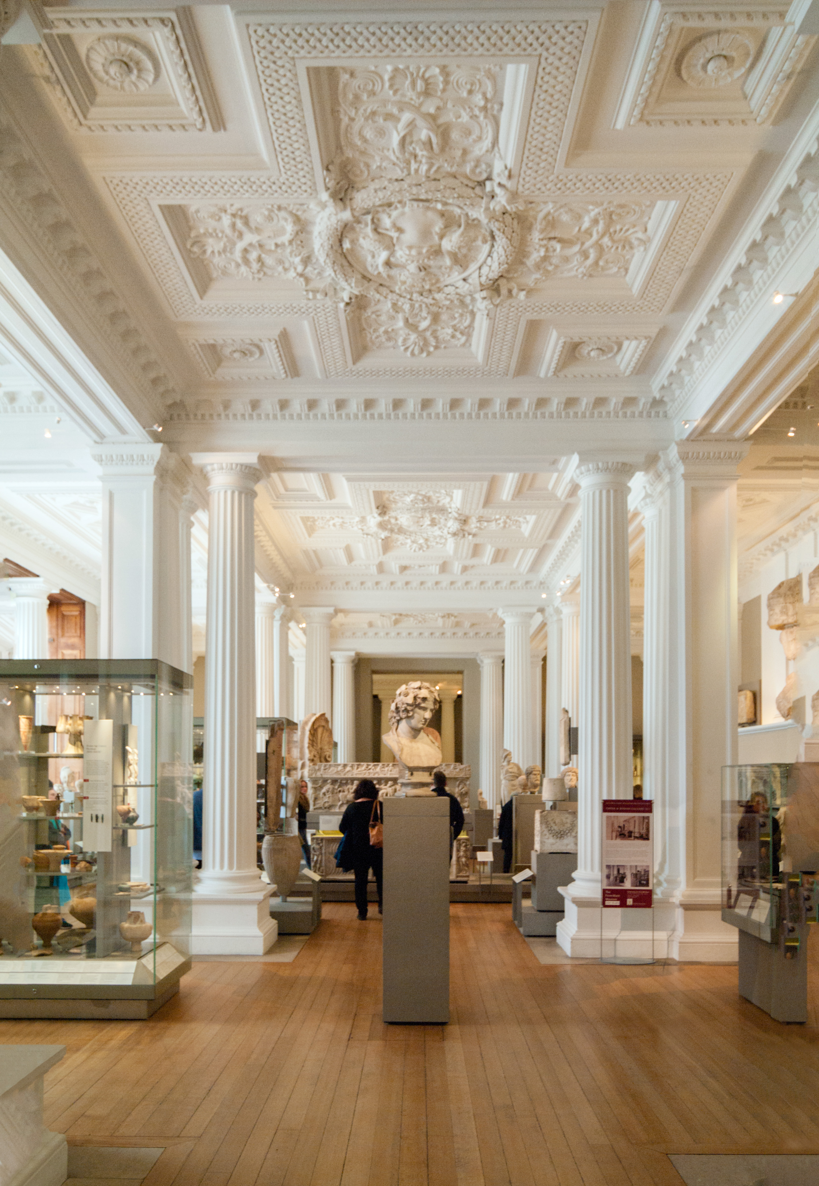 Fitzwilliam Museum - Marble bust of Antinous